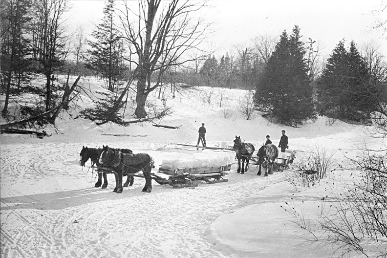 Cutting ice from the river, Toronto, Canada